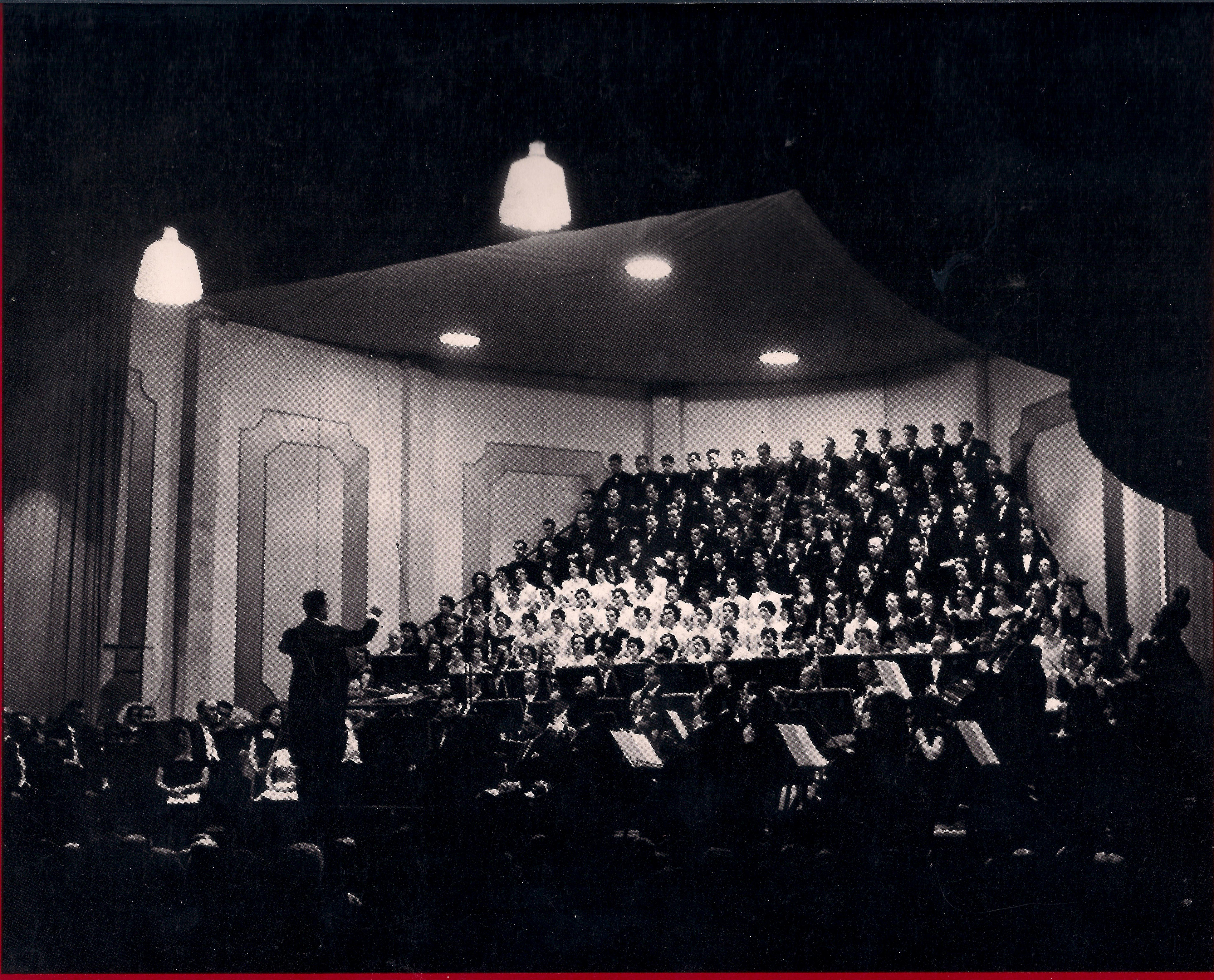 M° Ino Savini is conducting L. v. Beethoven XI Symphony Porto (P) 25-05-1955